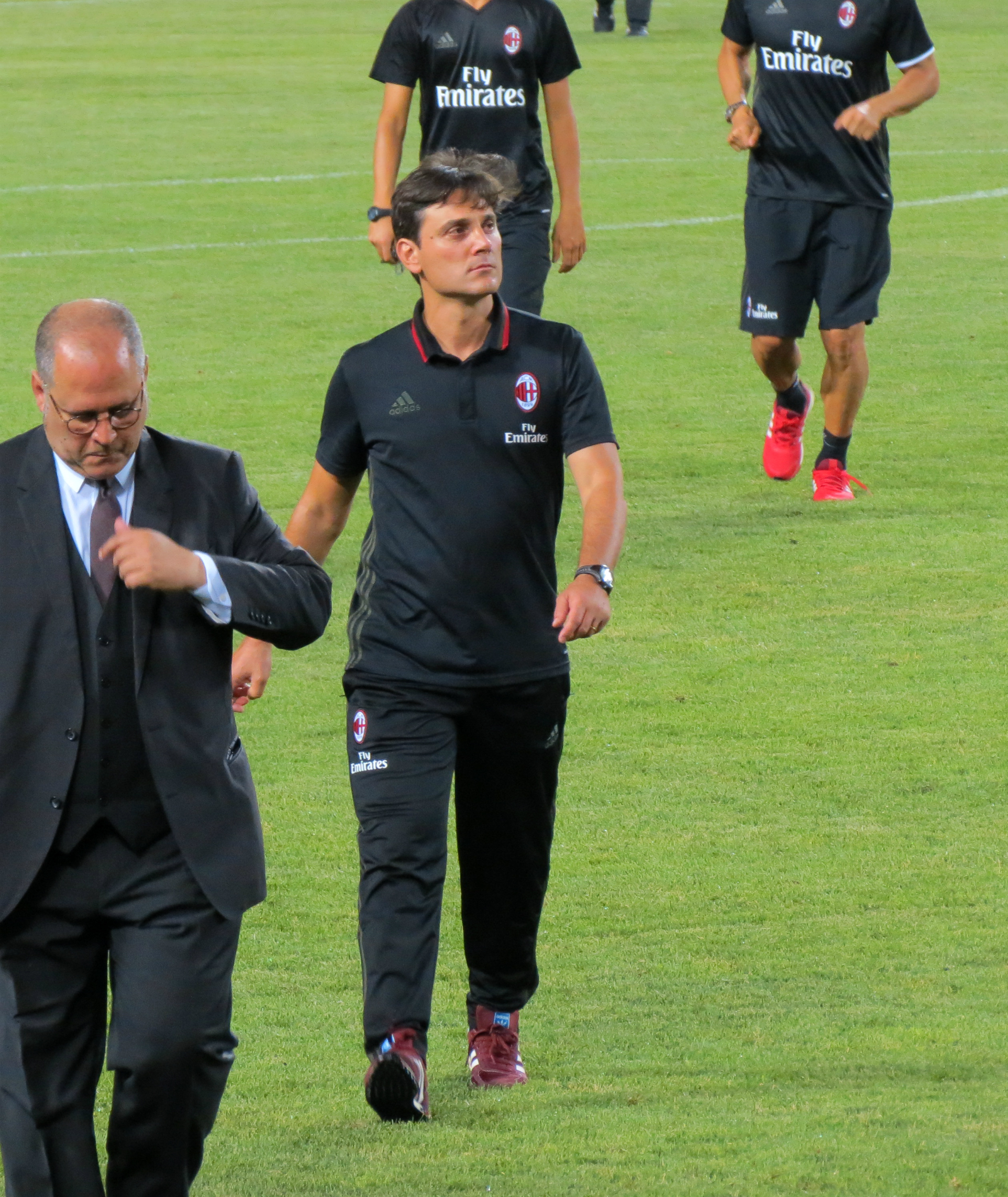 Vincenzo Montella, Bayern Munich v AC Milan, International Champions Cup 2016